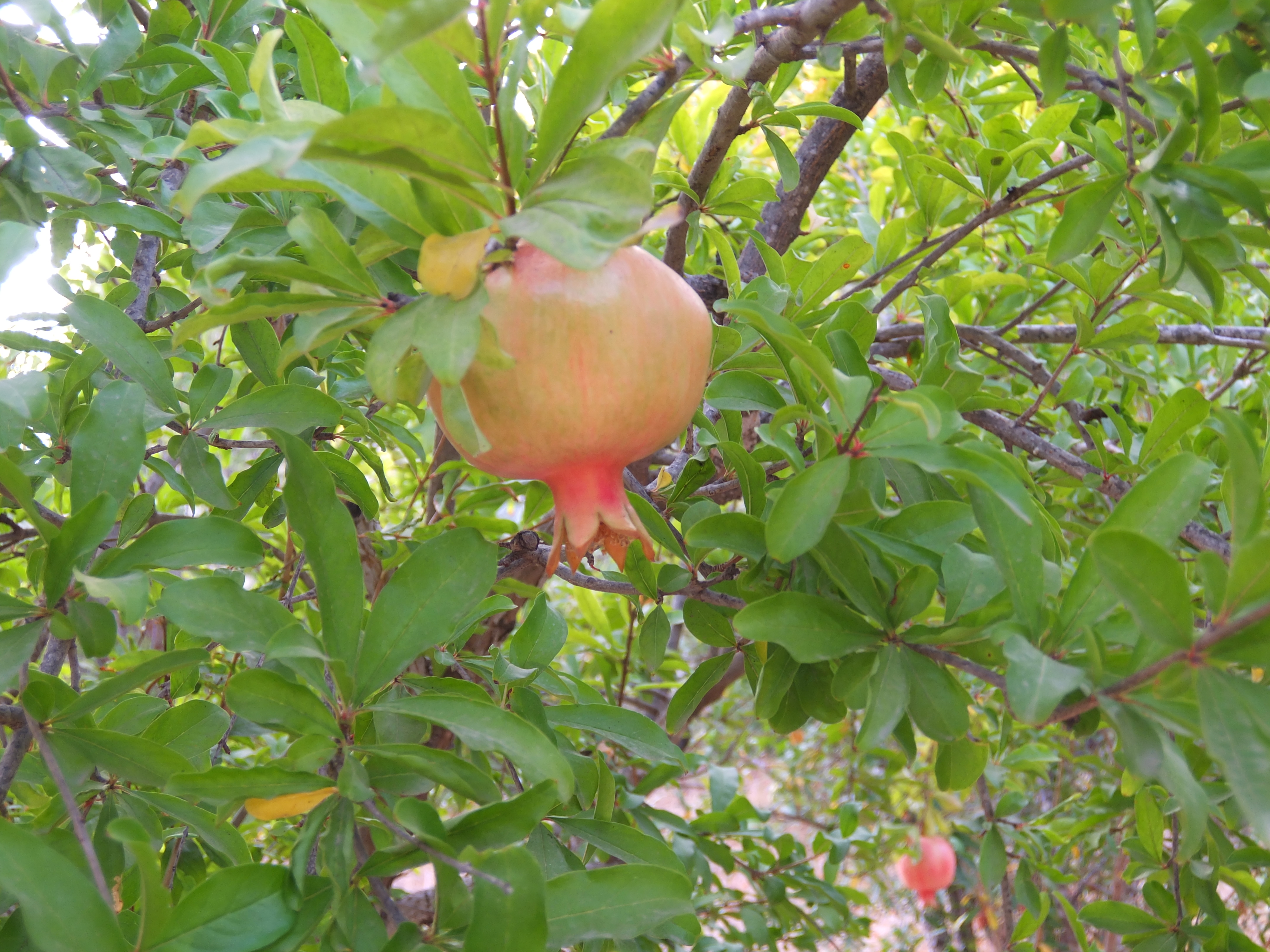 First fruit of season. Pomegranate on tree.